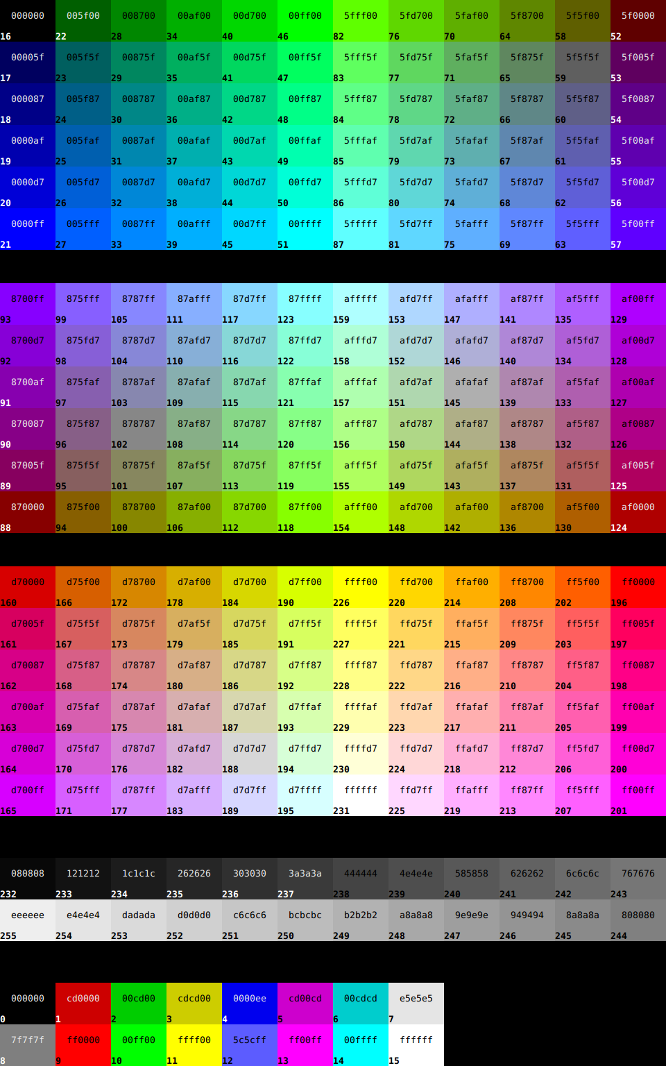 Colors of a standard 256-color xterm, generated by a Python script and displayed in xfce4 Terminal (composite screenshot). In each box is the RGB value of the color in hex, and the xterm color number in decimal.